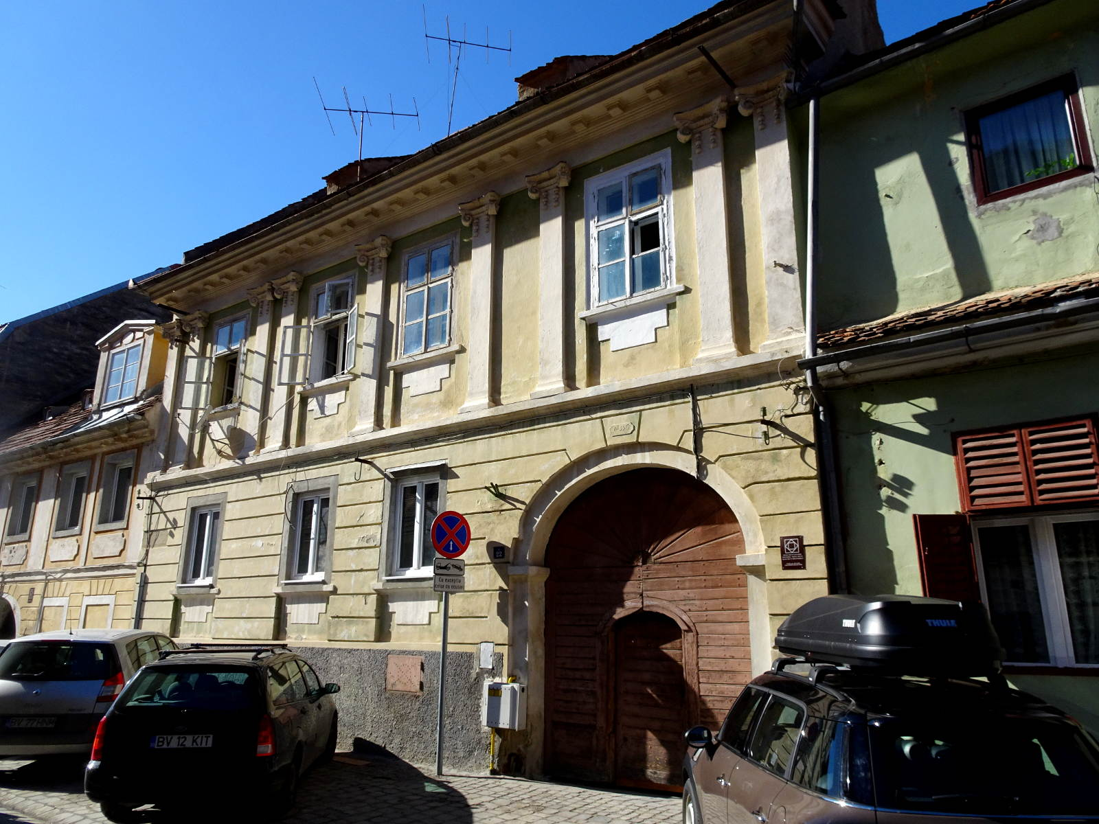 Strada Cerbului in Brasov, house number 22, historic monument